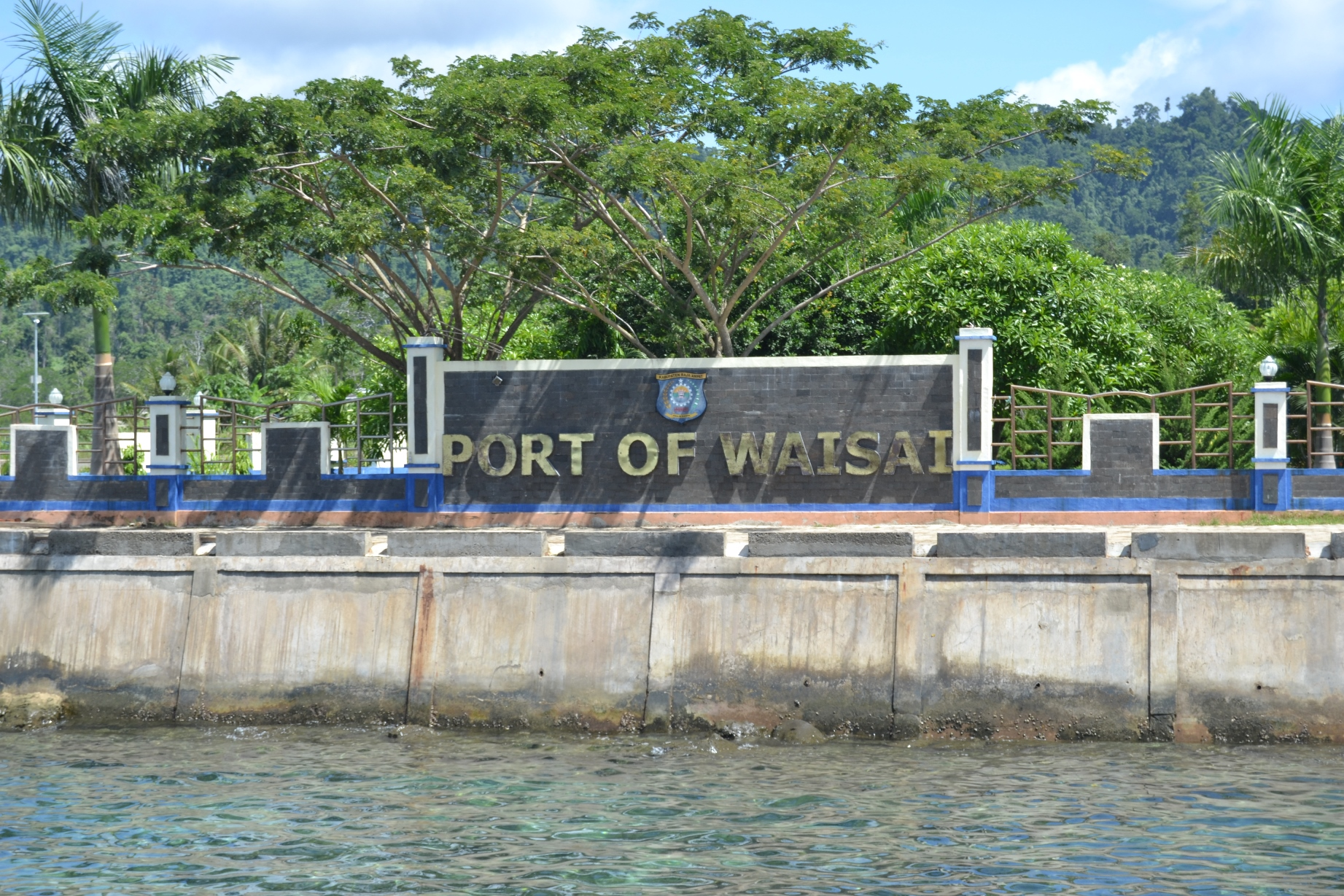 Port of Waisai, Raja Ampat, Papua Barat